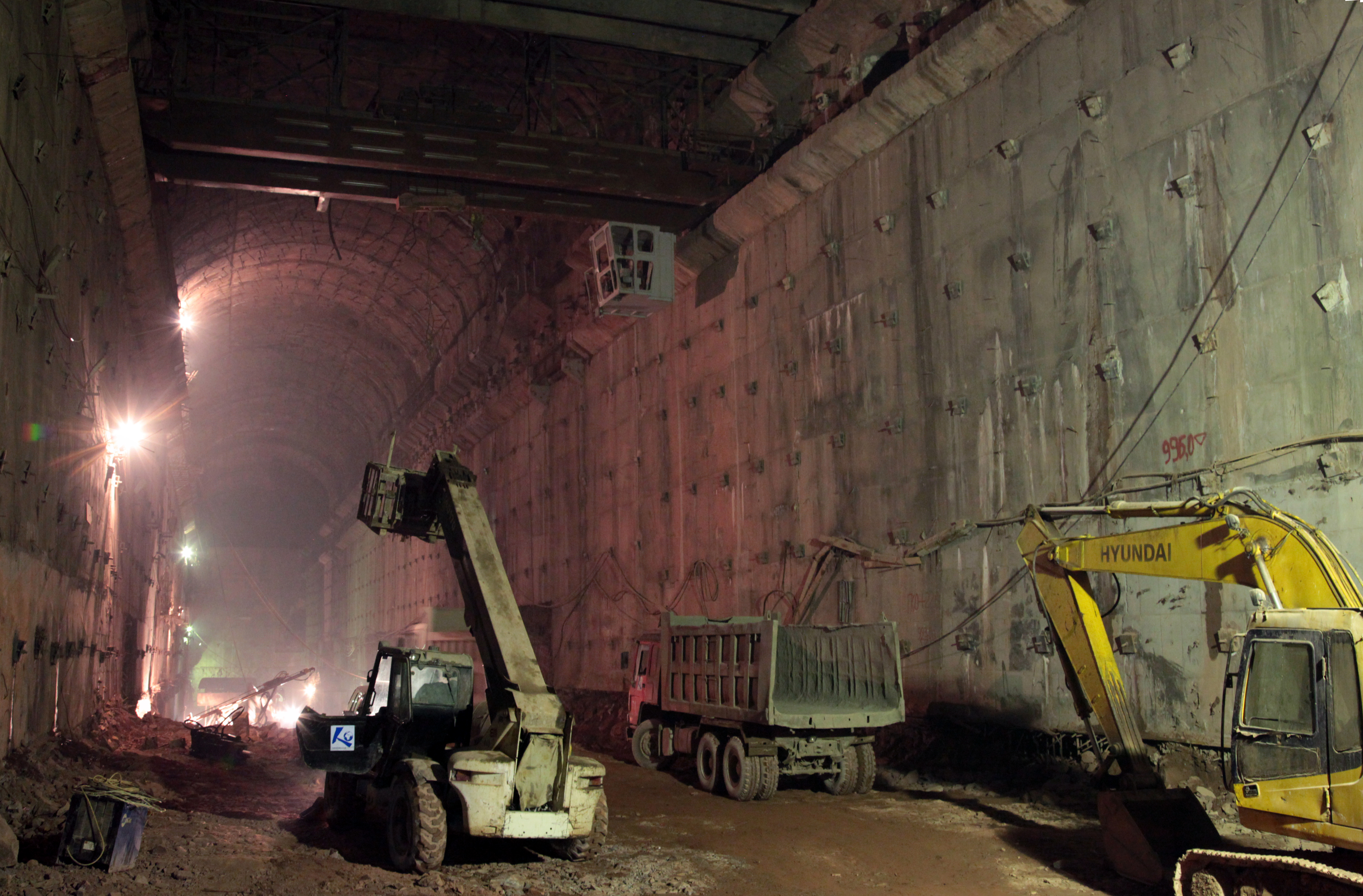 Ariana Tunnel Dam Company Rogun hydro electric power plant project